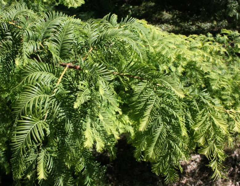 Lednice na Moravě, Czech republic, english park